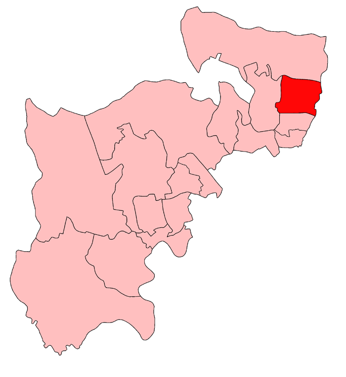 A map of Edmonton constituency within Middlesex, as it existed from 1918 to 1950.